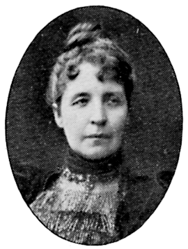 Image scanned from the book "Svenskt Porträttgalleri XX - Arkitekter, Bildhuggare, Målare m.fl. " ("Swedish Portrait Gallery XX - Architects, Sculptors, Painters, ") published 1901